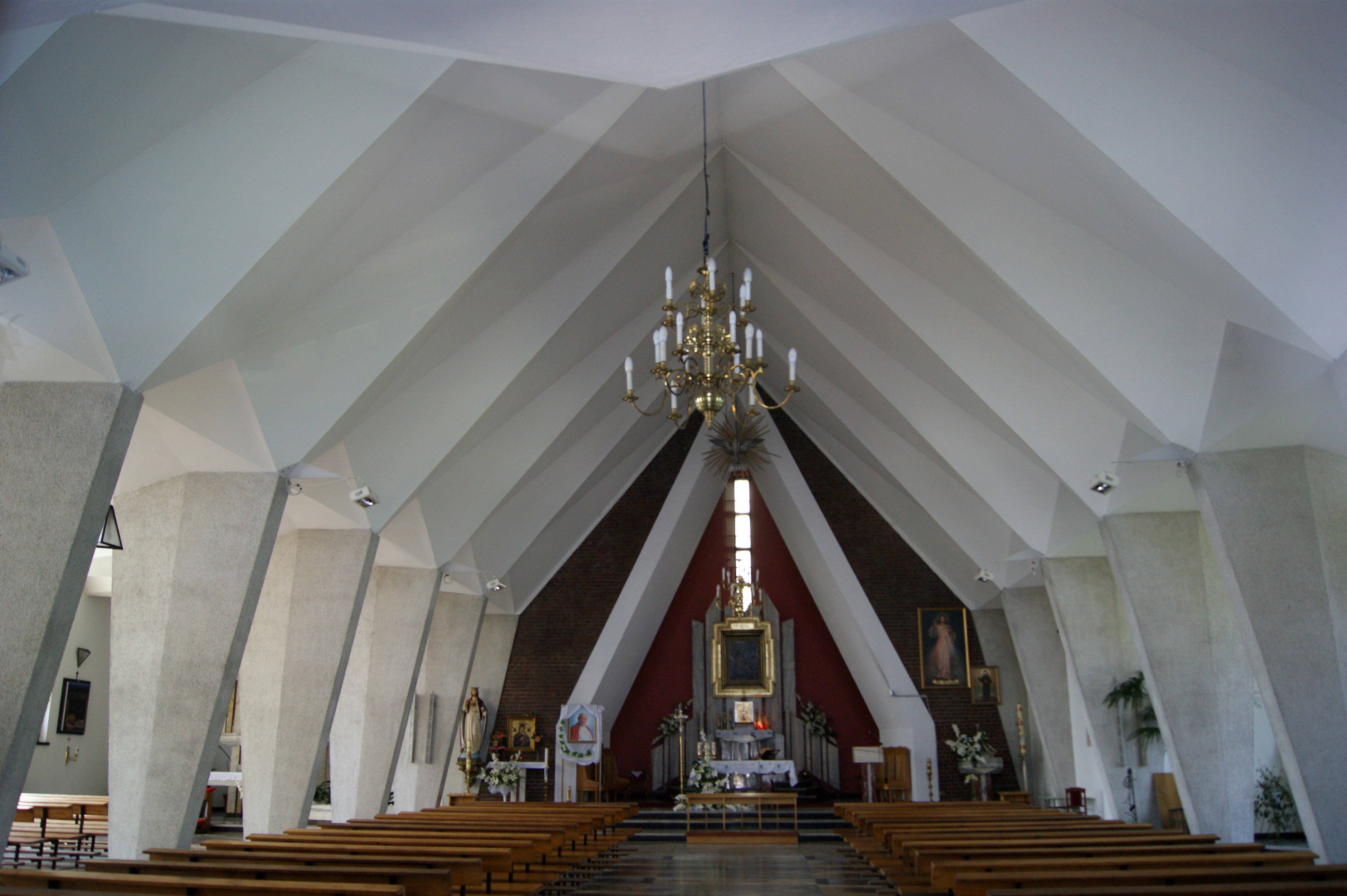 St Anthony of Padua Church (interior), 16 Pod Strzecha street, Bronowice Male, Krakow, Poland